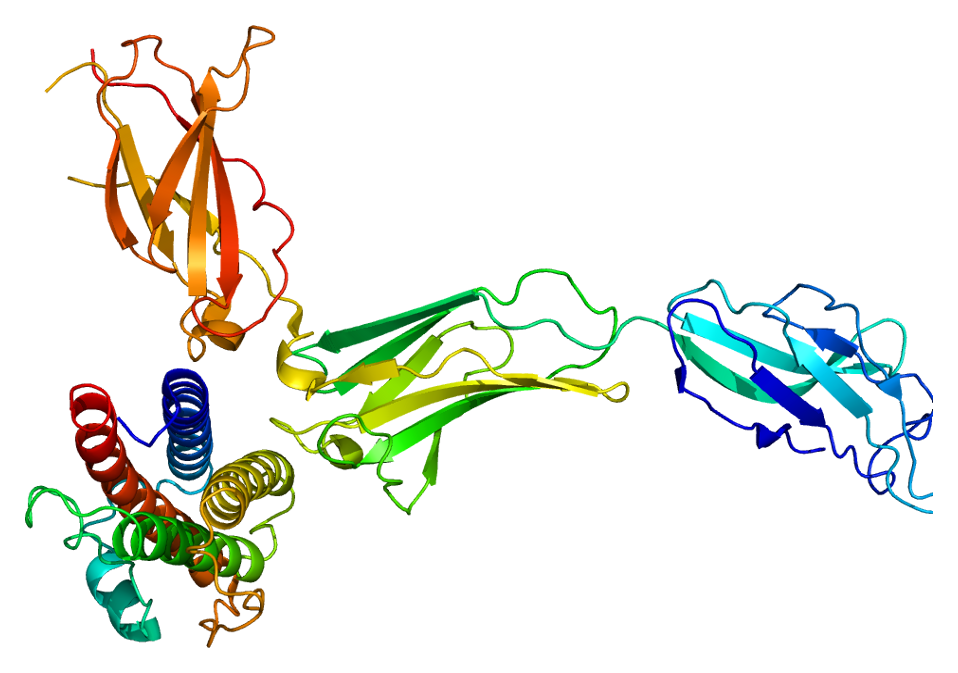 Structure of the CSF3R protein. Based on PyMOL rendering of PDB 2d9q.